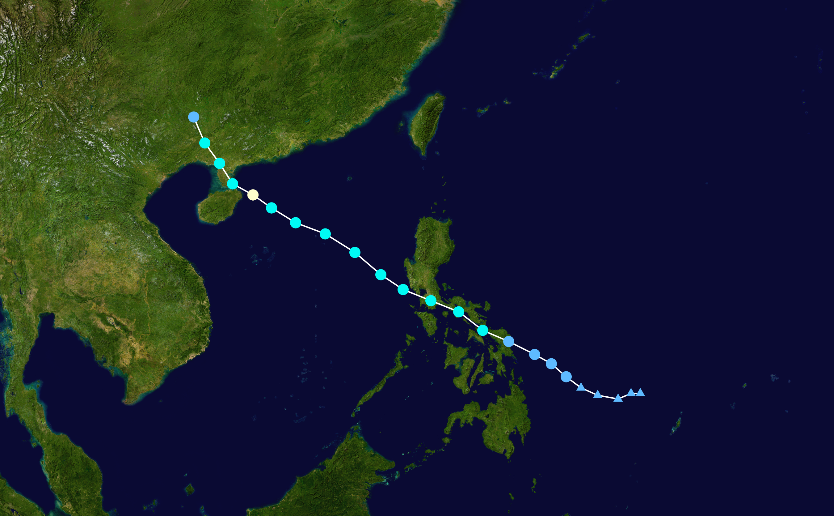 Track map of Severe Tropical Storm Rumbia (2013) of the 2013 Pacific typhoon season. The points show the location of the storm at 6-hour intervals. The colour represents the storm's maximum sustained wind speeds as classified in the Saffir–Simpson scale (see below), and the shape of the data points represent the nature of the storm, according to the legend below. Saffir–Simpson scale Tropical depression≤38 mph≤62 km/h Category 3111–129 mph178–208 km/h Tropical storm39–73 mph63–118 km/h Category 4130–156 mph209–251 km/h Category 174–95 mph119–153 km/h Category 5≥157 mph≥252 km/h Category 296–110 mph154–177 km/h Unknown Storm type Tropical cyclone Subtropical cyclone Extratropical cyclone / Remnant low / Tropical disturbance / Monsoon depression